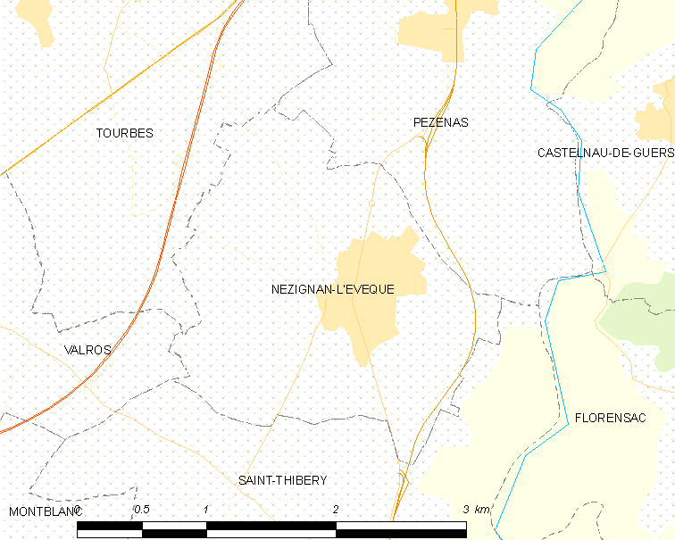 Map commune FR insee code 34182.png - Nézignan-l'Évêque